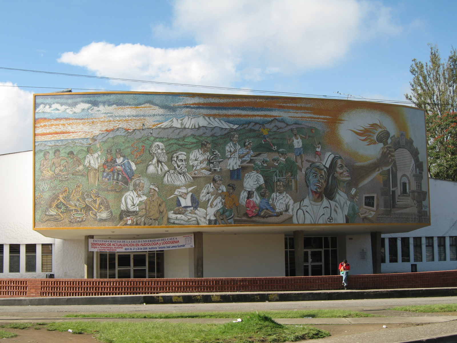 The mural "History of Medicine in Cauca" created by Belisario Antonio Gómez Castro between 2004 and 2005 with 2,500,000 glass tiles imported from Mexico, is located in the Faculty of Health Science of the University of Cauca (Popayán, Colombia). This mural / mosaic embodies a series of characters and events that have significance in the regional and world history of medicine, representing from primitive practices to the great advances of science.